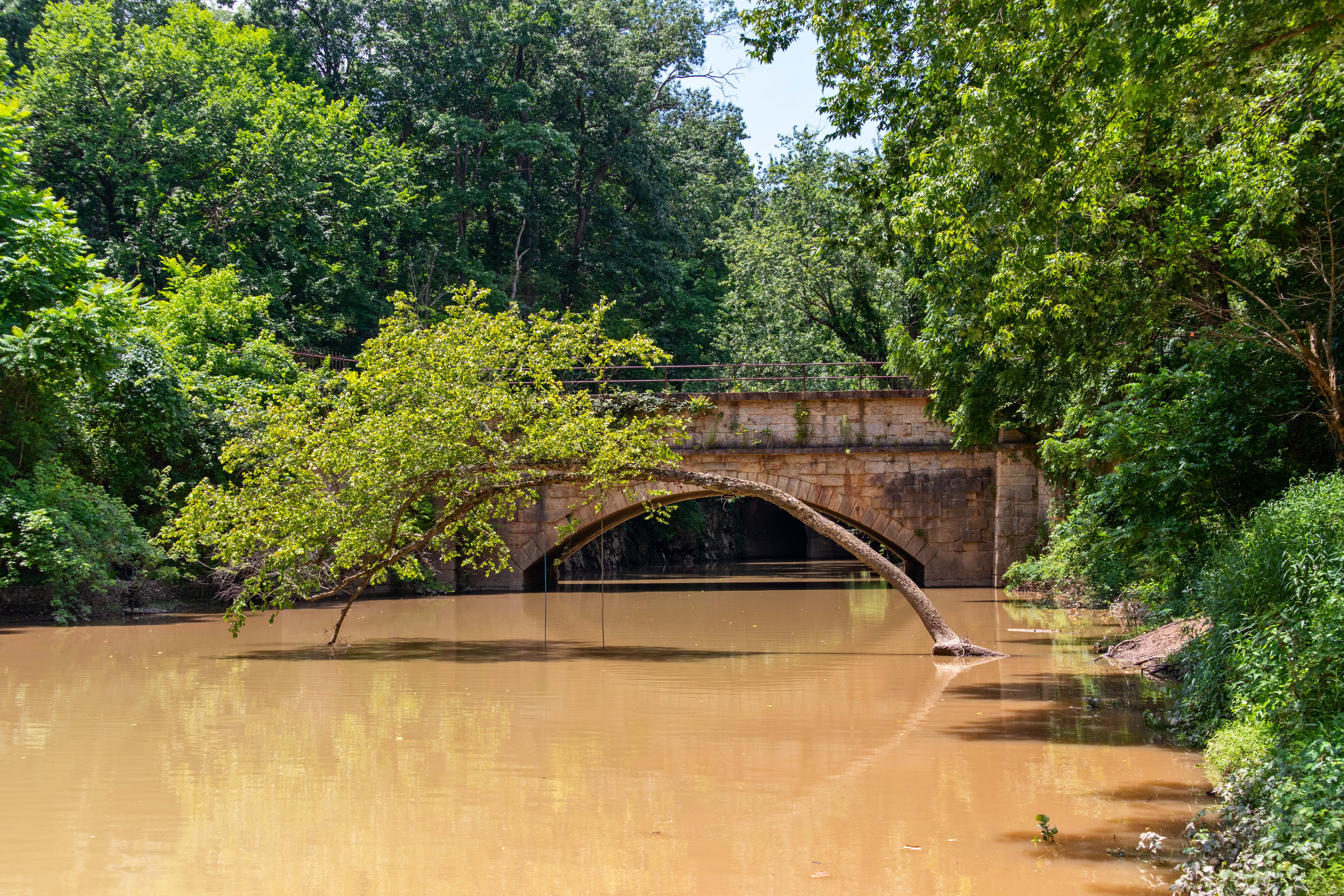 15 Mile Creek Aqueduct on the Chesapeake and Ohio canal